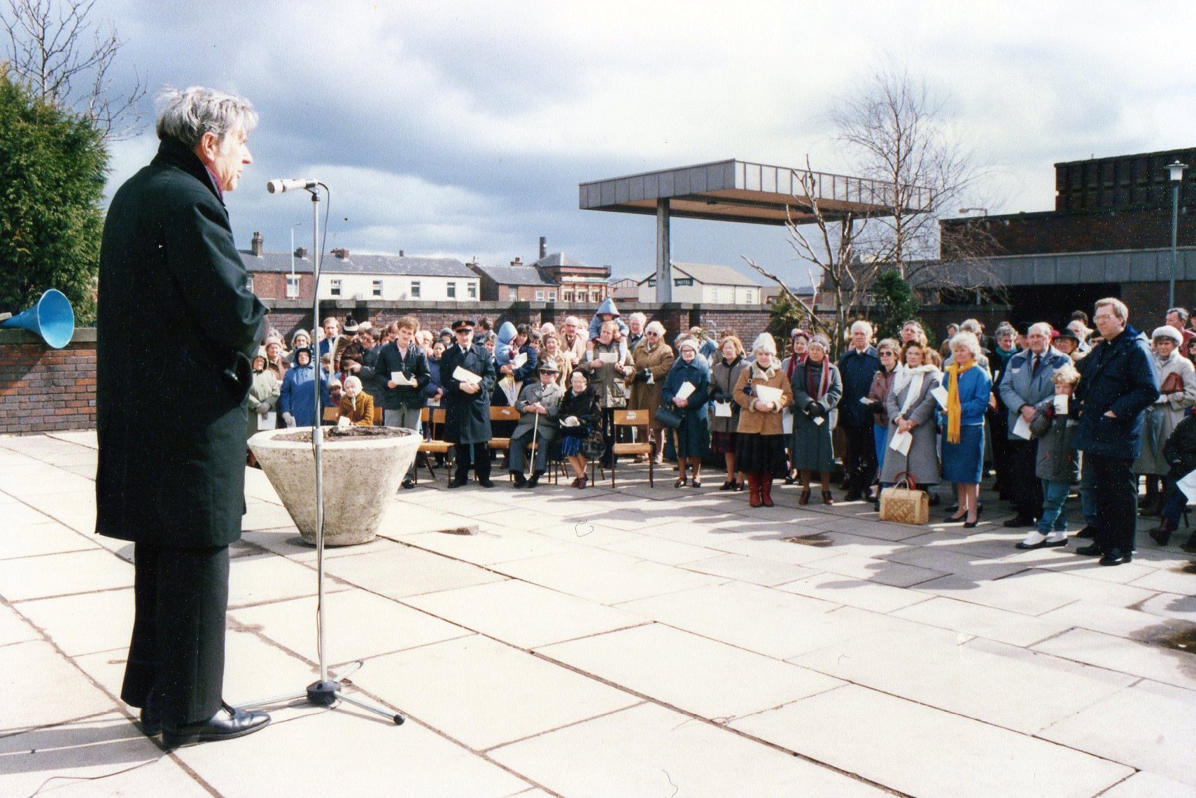 The Bishop of Manchester- Stanley Booth-Clibborn- addresses a Good Friday gathering in Royton precinct, early 1980s